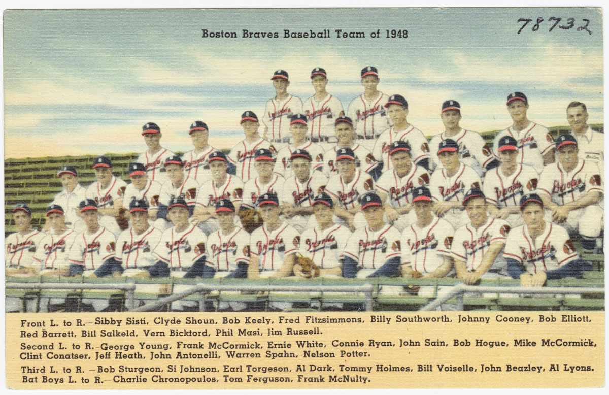 Accession No.: 06_10_000019 Subject: Boston (Mass.) Front Caption: Boston Braves Baseball Team of 1948 Front L. to R. - Sibby Sisti, Clyde Shoun, Bob Keely, Fred Fitzsimmons, Billy Southworth, Johnny Cooney, Bob Elliott, Red Barrett, Bill Salkeld, Vern Bickford, Phill Masi, Jim Russell. Second L. to R. - George Young, Frank McCormick, Ernie White, Connie Ryan, John Sain, Bill Hogue, Mike McCormick, Clint Conatser, Jeff Heath, John Antonelli, Warren Spahn, Nelson Potter. Third L. to R. - Bob Sturgeon, Si Johnson, Earl Torgeson, Al Dark, Tommy Holmes, Bill Voiselle, John Beazley, Al Lyons. Bat Boys L. to R. - Charlie Chronopoulos, Tom Ferguson, Frank McNulty. Publishing information: Tichnor Bros. Inc., Boston, Mass. Format: postcard BPL Collection: Tichnor BPL Department: Print Department